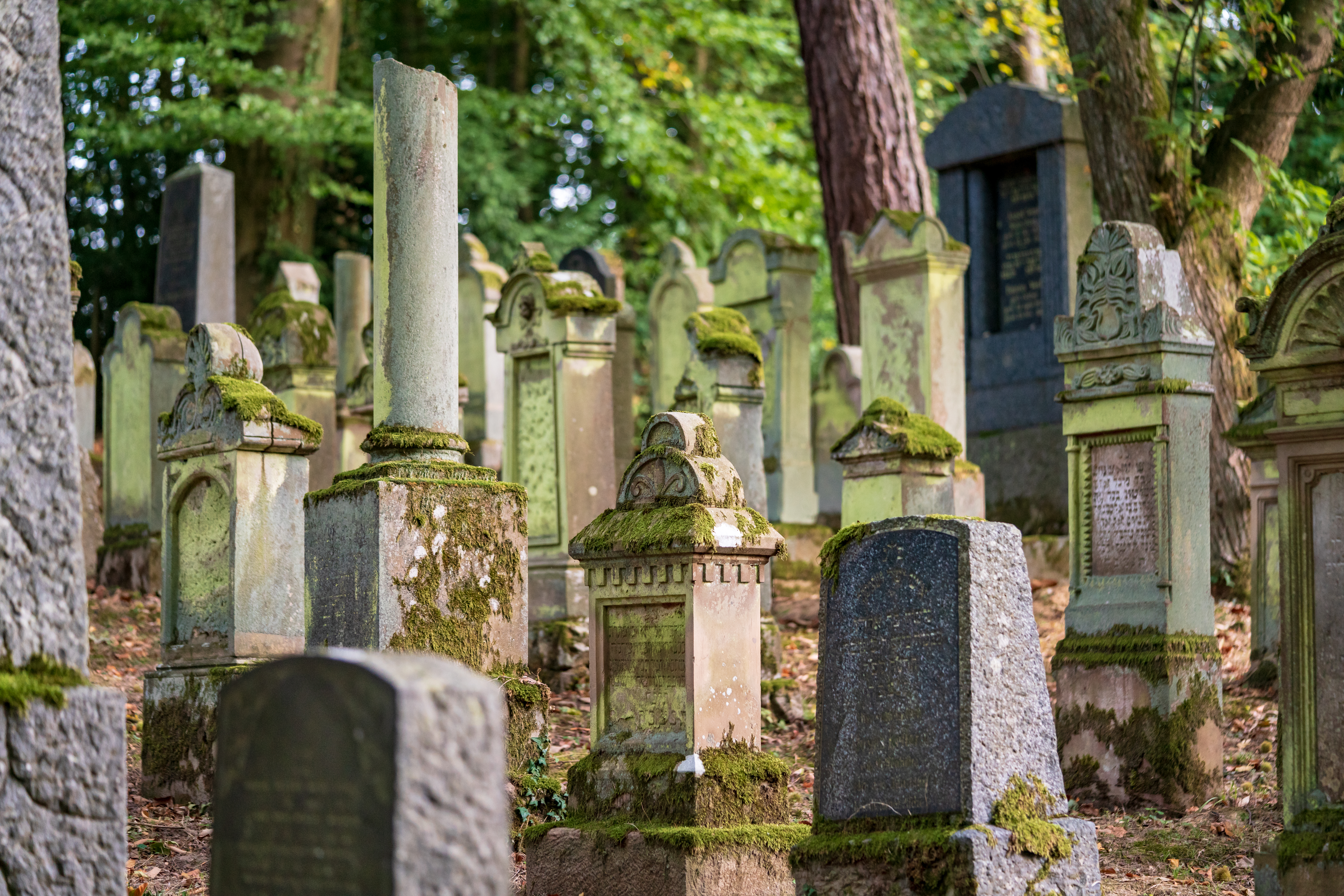 Jewish cemetery near Waibstadt, Germany: View of a small well-preserved part of the so-called “new” (north-western) dof the cemetery, looking to south. The view is typical for that part of the cemetery and represents its appearance quite well.I have intentionally limited the depth of field to indicate by the blurred background the expanse of the cemetery. This part of the cemetery is brighter than the other ones, but still not really bright.